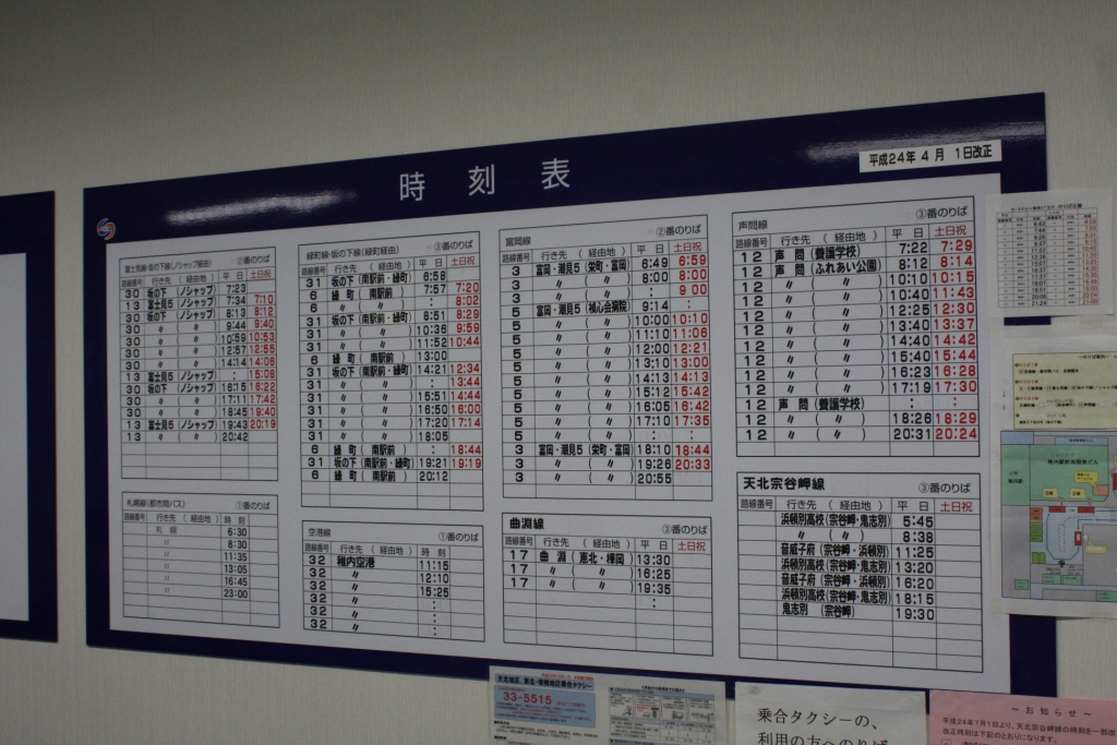 Timetables for Soya Bus at Wakkanai Station Bus Terminal